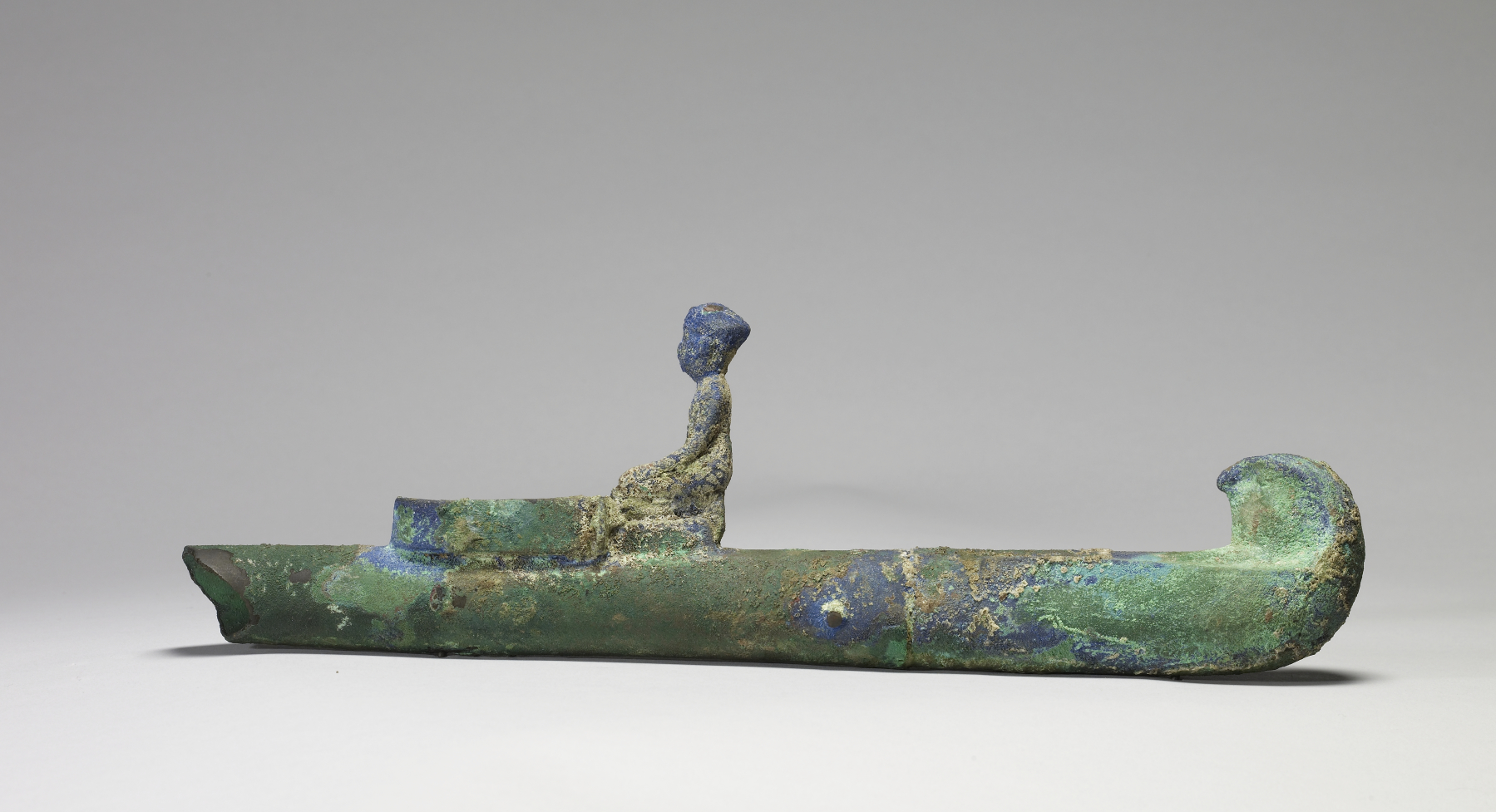 A staff of priests and priestesses performed the daily rituals of the Egyptian temple. A chief priest tended to the cult image of the temple's god or goddess, in the name of the king, who was thought to have daily need of food and clothing. Lesser ranking priests attended to offerings and performed the minor parts of the temple rituals. Incense burners were used extensively in temple and funerary ceremonies to purify the sacred space. The handle of this incense burner ends in a falcon's head. At the center is a figure of a king kneeling before a cartouche-shaped pan that held incense pellets. The other end (now missing) was shaped like a hand holding a small pan for burning the incense.